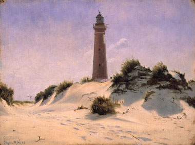 painting of the lighthouse in Skagen by Danish artist Christian Blache.